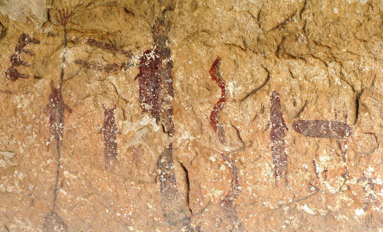 Rock art at Seminole Canyon State Park and Historic Site, Texas.